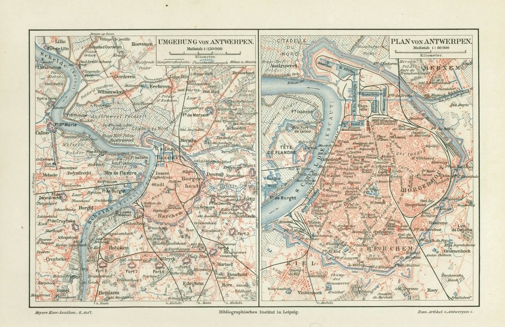 Antwerp, Belgium ; map 1906